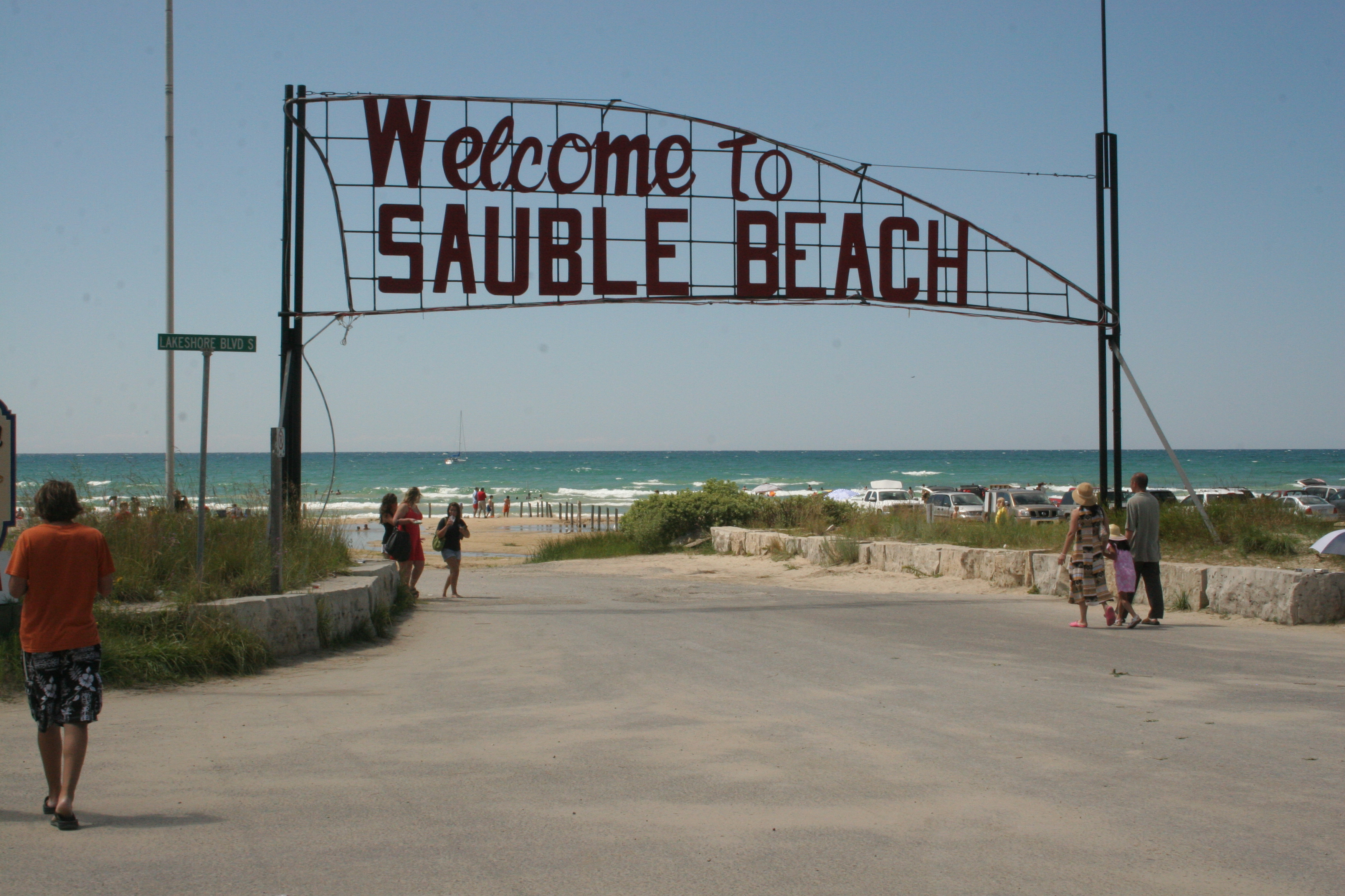 Sauble Beach – 11 km of clean sandy beach located just a couple of hours from Toronto